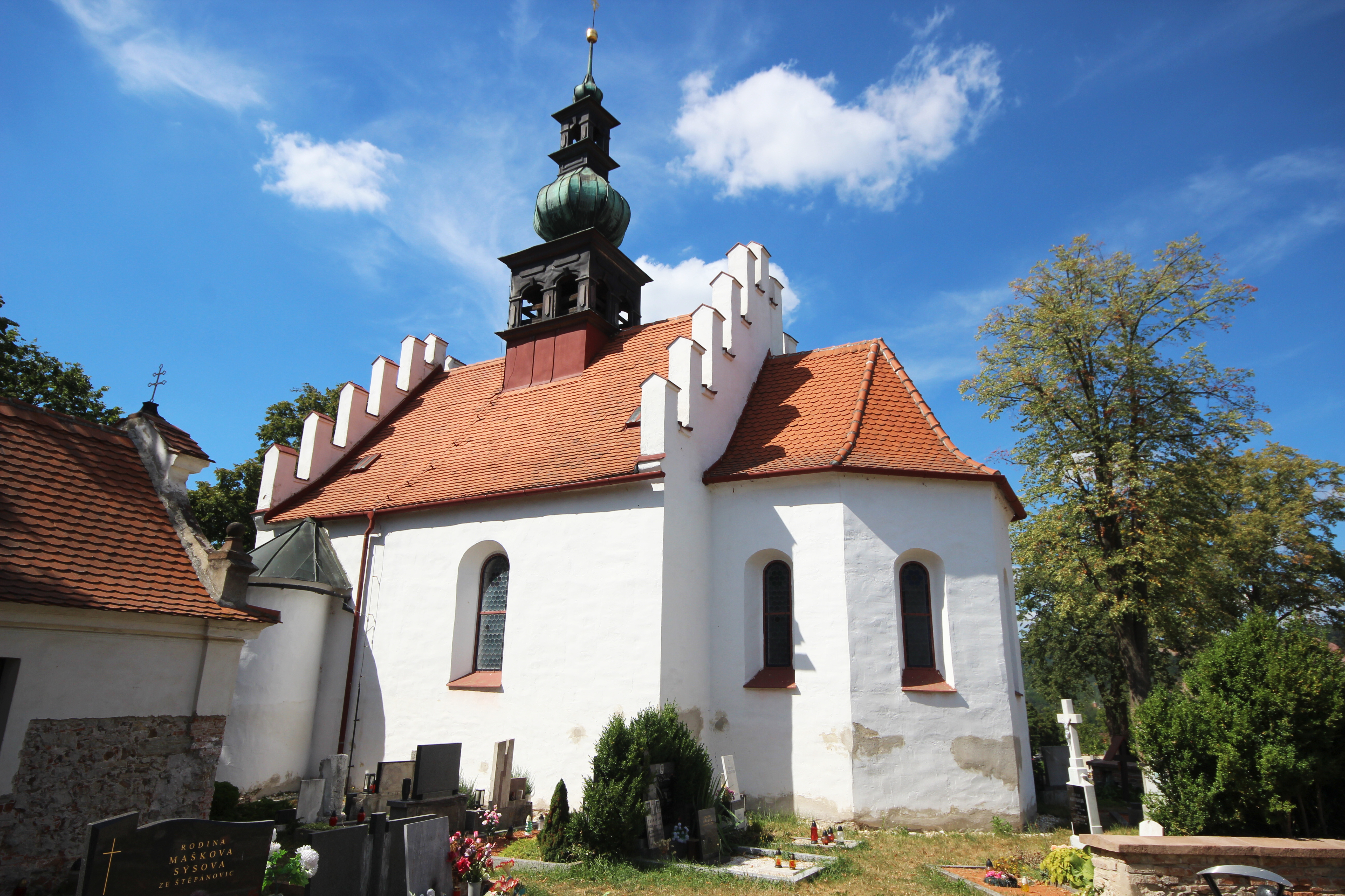 Church of the Holy Trinity, Předklášteří, Brno-Country District, Czech Republic This photograph was taken with a DSLR from WMCZ's Camera grant.